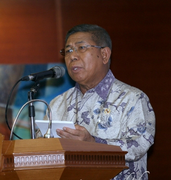 Sudi Silalahi